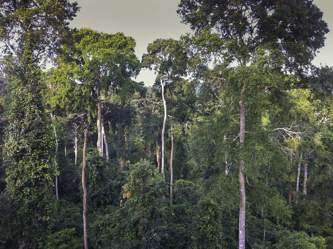 Iphone photo